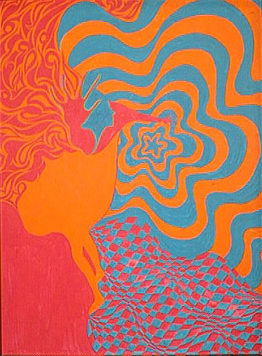 Alice Down the Rabbit Hole; tempera on canvas board, 45.7 x 61 cm, painting, the author is Adrian Piper